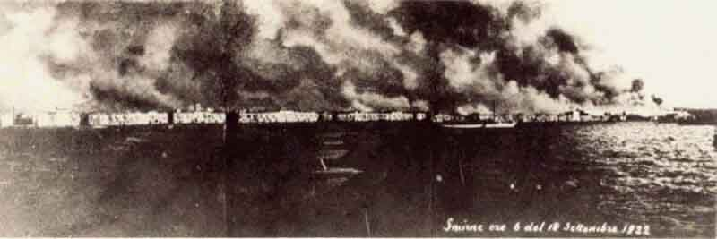 Photo of Smyrna burning taken from a ship in Smyrna gulf, 1922. The writing on the picture is in Italian and it reads "Smyrna, 06:00 hours, 18 September 1922"